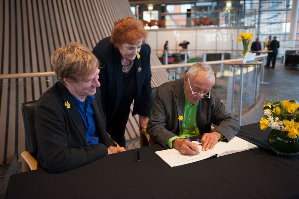 Ivan Harbour and Rosemary Butler, with Richard Rogers signing the visitor book at the Senedd, Cardiff, Wales